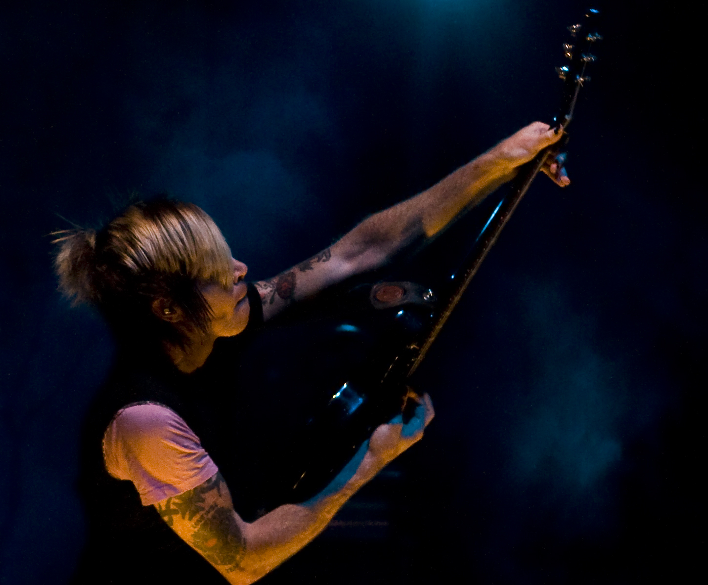 Jade Puget of AFI at Arenan/Fryshuset in Stockholm